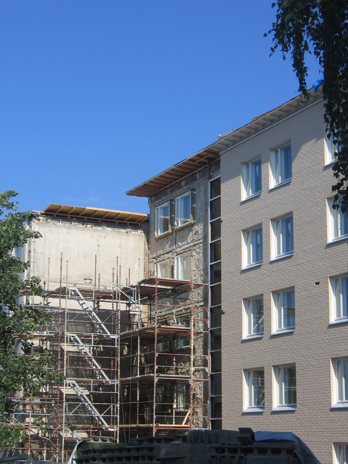 Jakomäki suburb in Helsinki, Finland. An old building is getting a completely new façade.